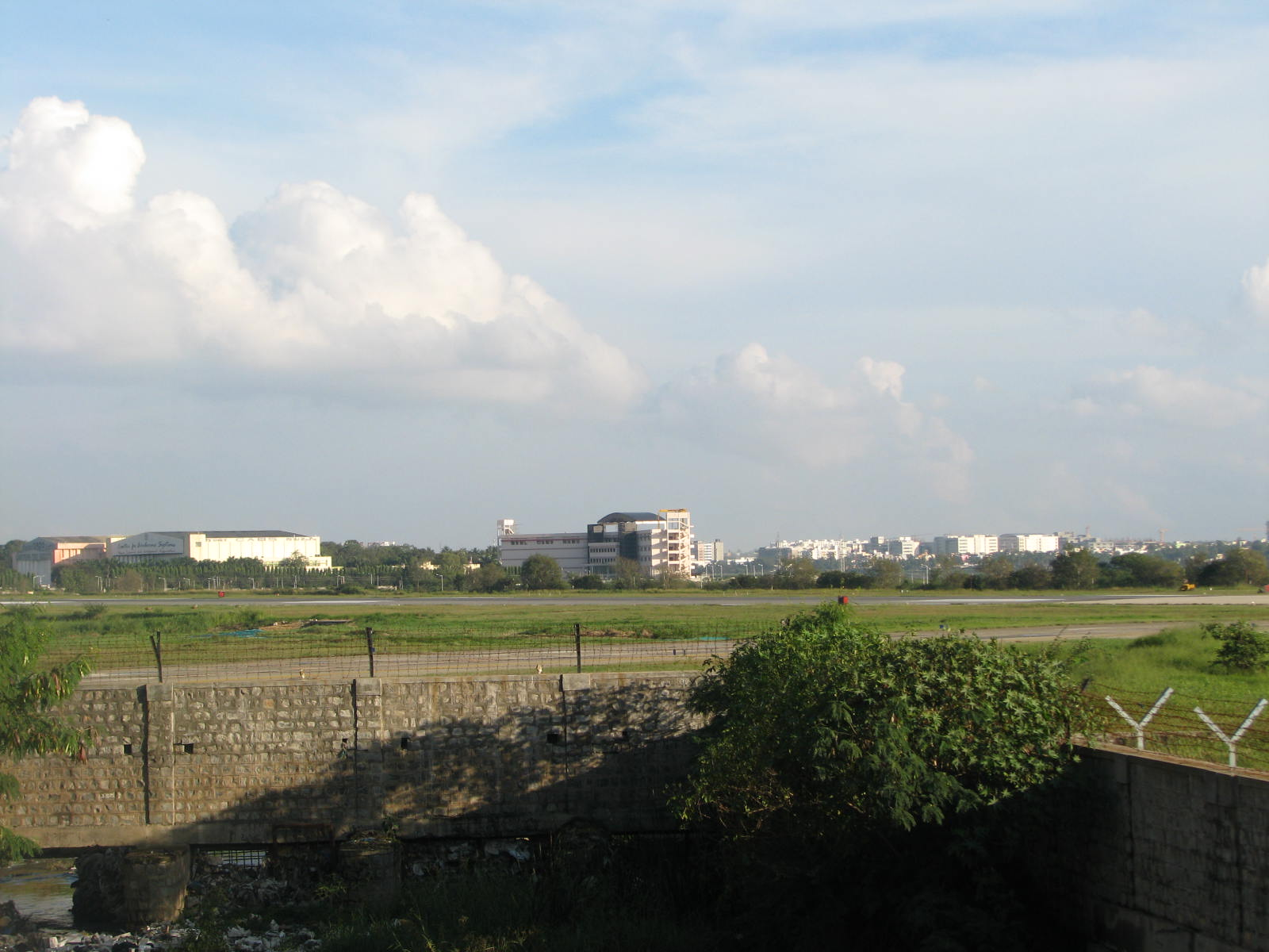 Old Airport Bangalore